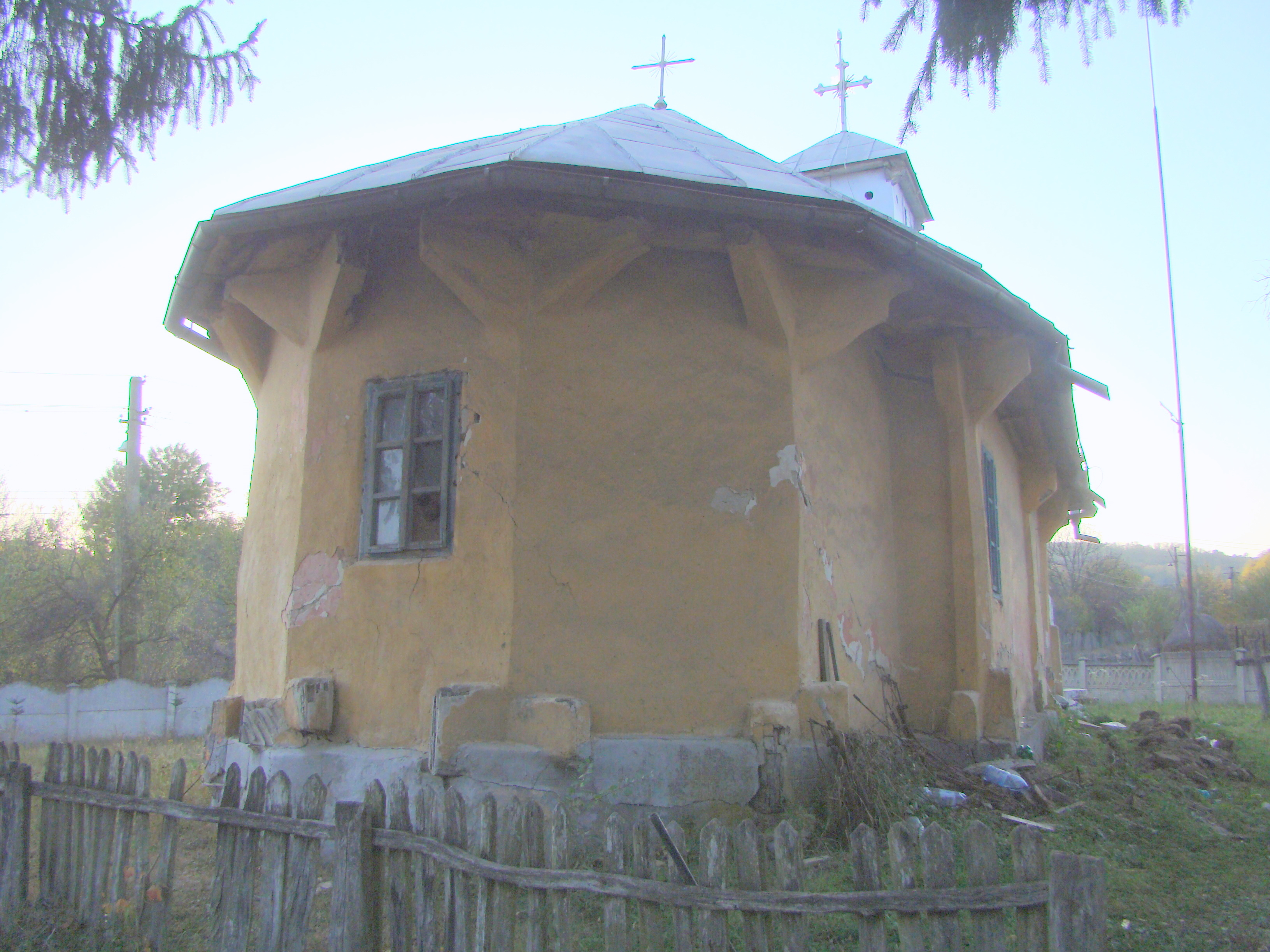 Wooden church in Băzăvani, Gorj county, Romania